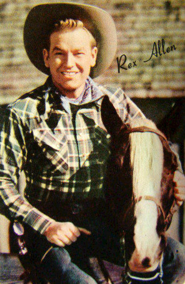 Photo of Rex Allen and his horse, Koko. Allen was an actor, singer and songwriter as well as a narrator and voice artist in the later years of his career.